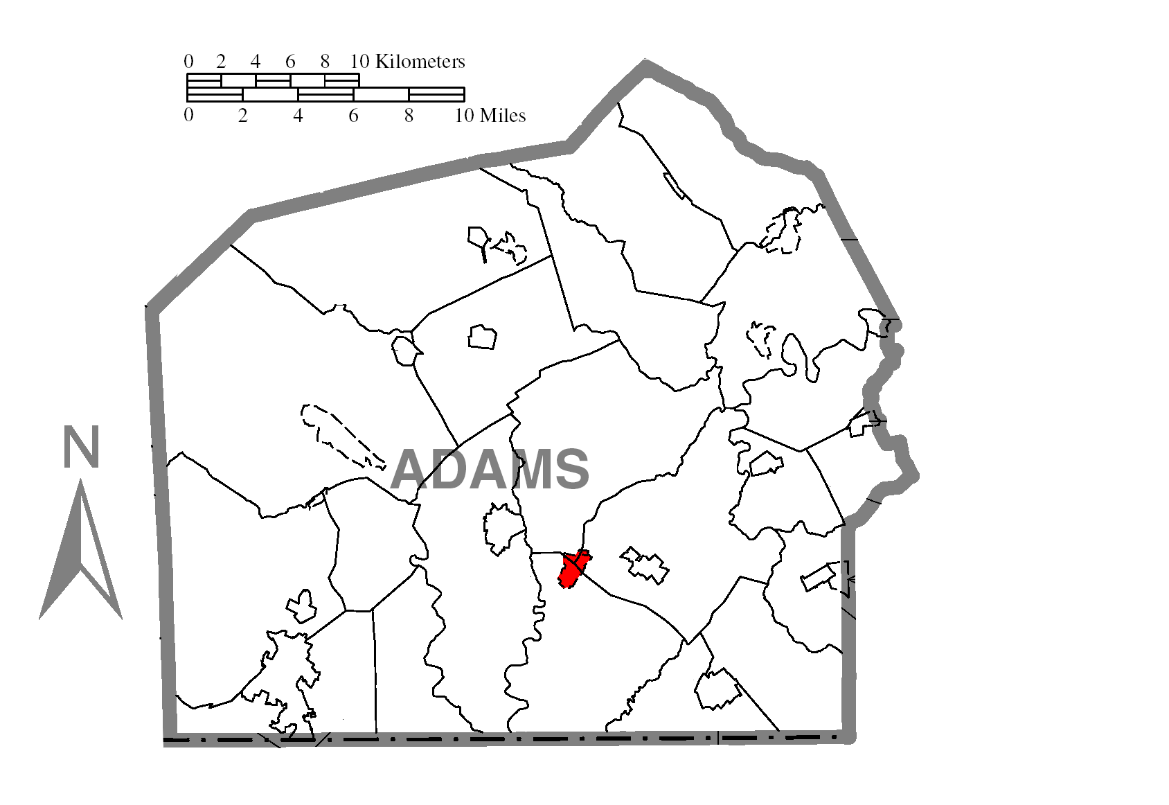 A map of Adams County showing Lake Heritage, Pennsylvania (alternate) highlighted on the map.